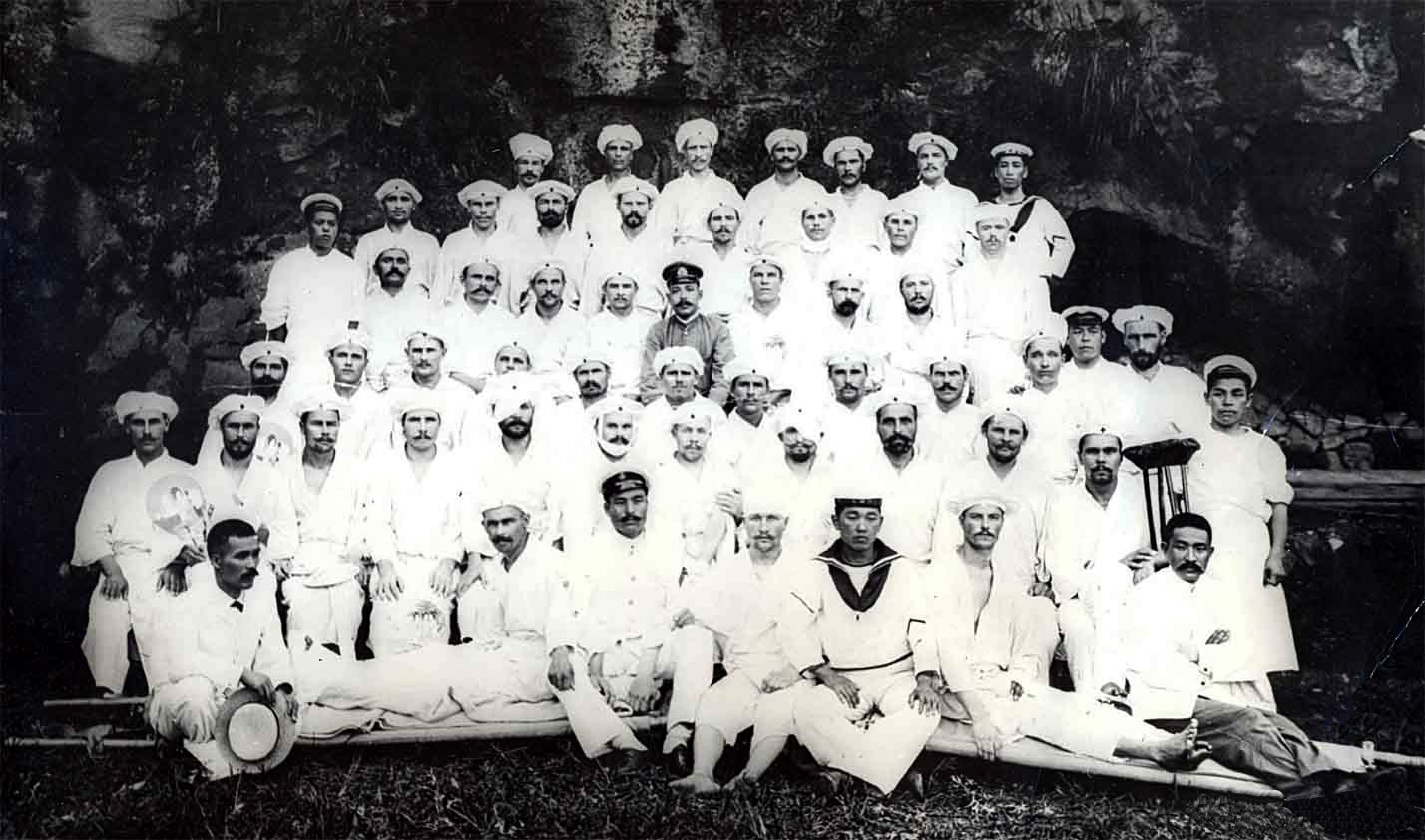 Russian prisoners of war in a Japanese hospital in Sasebo, 1905. These are the sailors from Sisoy Veliky battleship sunk in the Battle of Tsushima.